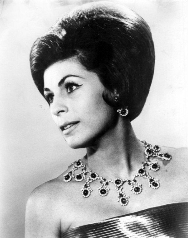 Publicity photo of soprano Roberta Peters.